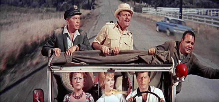 It's a Mad, Mad, Mad, Mad World. Back L-R: Milton Berle, Terry-Thomas, and Jonathan Winters. Front: Ethel Merman, Dorothy Provine, and Dick Shawn